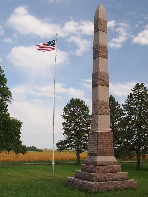 Wood Lake Monument, Yellow Medicine County, Minnesota, USA. Taken in September 2012, sesquicentennial month of the Battle of Wood Lake.